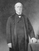 Michigan Senator Henry P. Baldwin